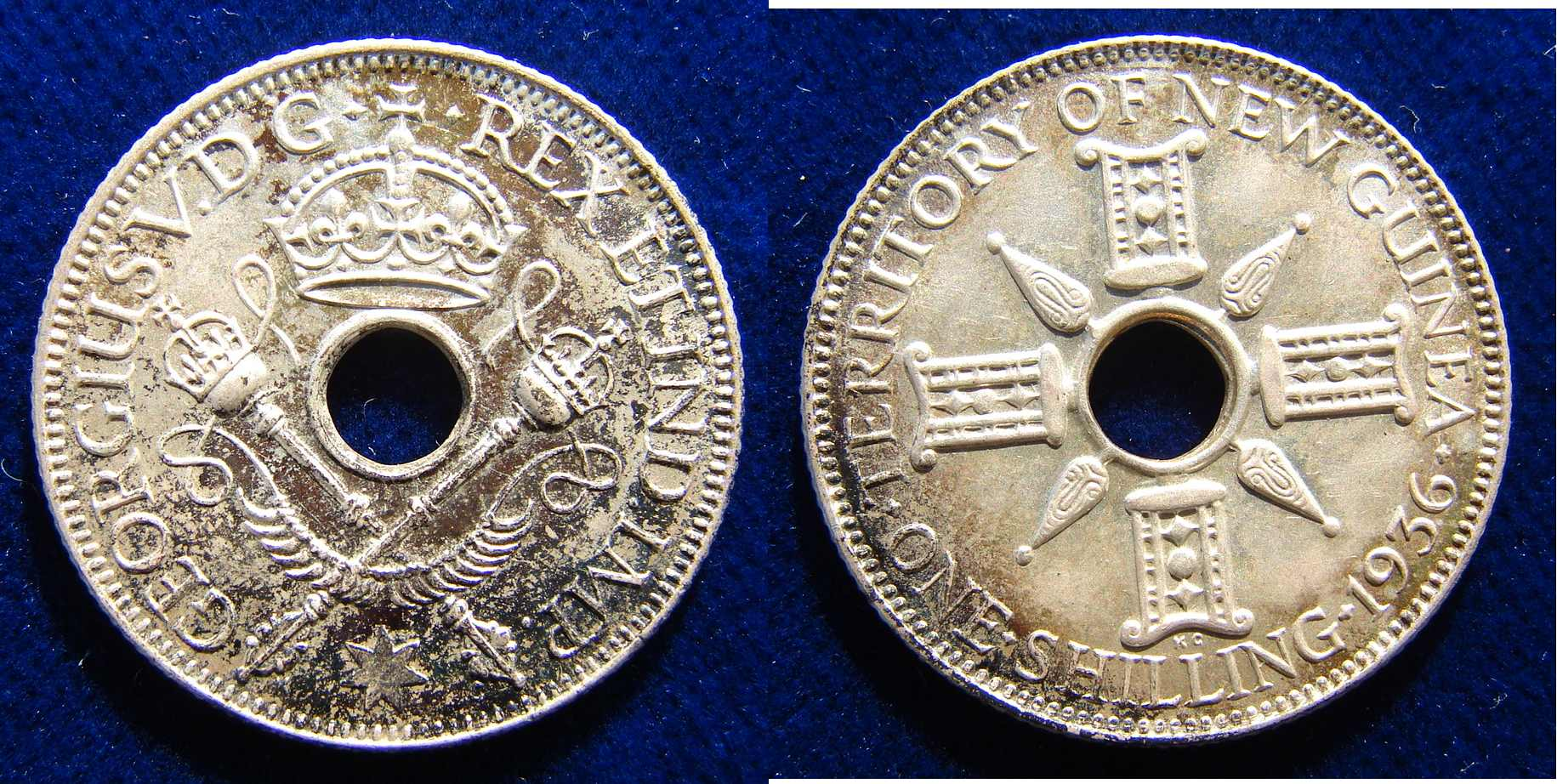 5.4 g Sterling Silver George V, 1921- 1936 Hole in centre, flanked by crossed sceptres and crownabove Around: "* GEORGIUS V. D G REX ET IND. IMP. *"/ On the reverse the hole is flanked by indigenous designs, around: "TERRITORY OF NEW GUINEA ONE SHILLING date". KM 5 Medallist: KG (George Kruger Gray), 1880 London - 1943 Chichester, England. Condition: Nicely toned EXTREMELY FINE.